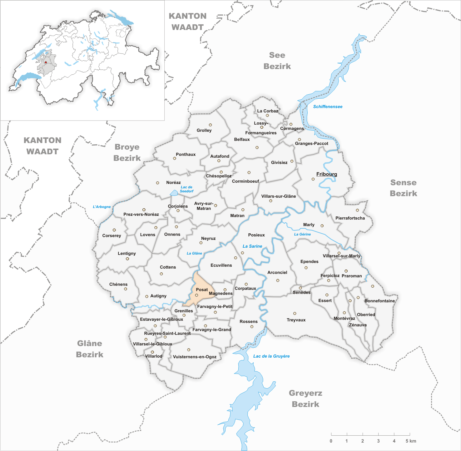 Municipality Posat Artist: Tschubby